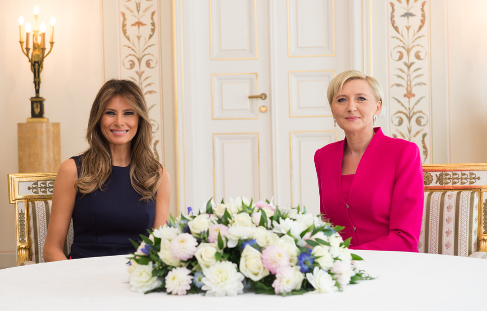 First Lady Melania Trump and First Lady Agata Kornhauser-Duda | July 6, 2017 (Official White House Photo by Andrea Hanks)